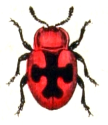 Mycetina cruciata, from Calwer's Käferbuch, Table 46, Picture 11. Taxonomy was updated to 2008, using mostly the sites Fauna Europaea and BioLib. Please contact Sarefo if the determination is wrong!